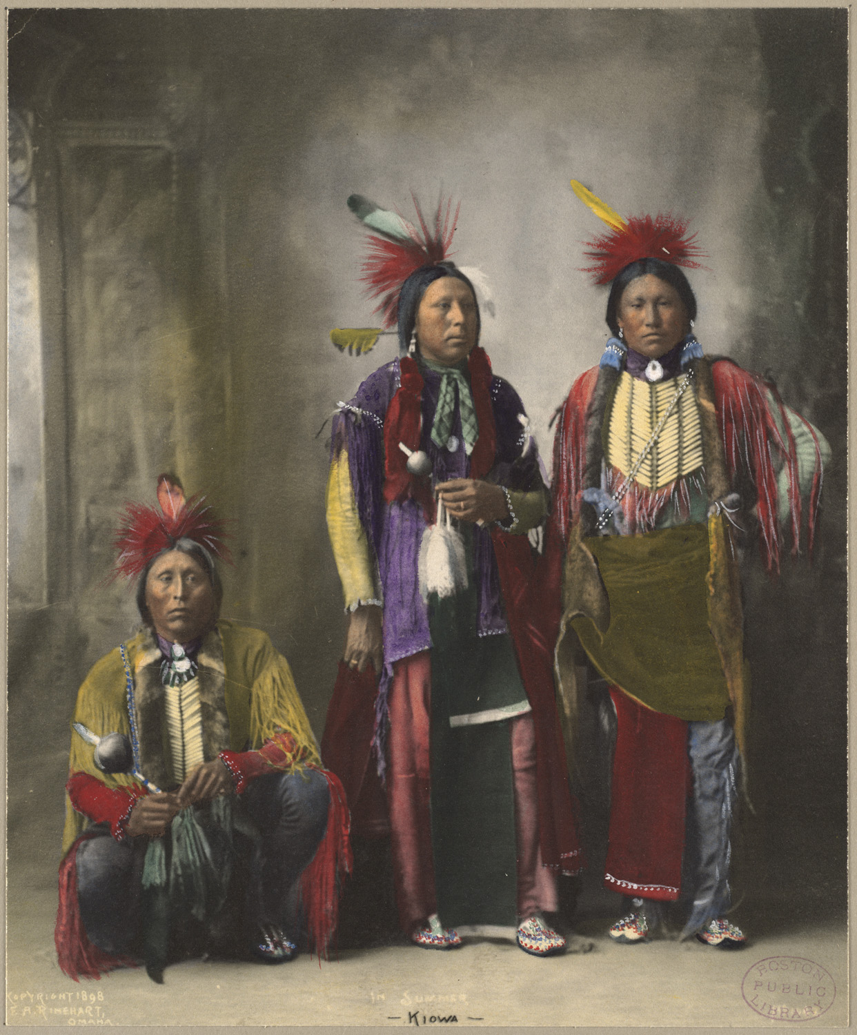 File name: 09_06_000112 Cab no.: Cab 23.41.1 Title: In Summer, Kiowa Creator/Contributor: Rinehart, F. A. (Frank A.) (photographer) Copyright date: 1898 Physical description: 1 photographic print : platinum, hand-colored Summary: Genre: Platinum prints; Portrait photographs Subjects: Trans-Mississippi and International Exposition (1898 : Omaha, Neb.); Indians of North America; Kiowa Indians Notes: Rinehart No. 1042 Location: Boston Public Library, Print Department Rights: No known restrictions